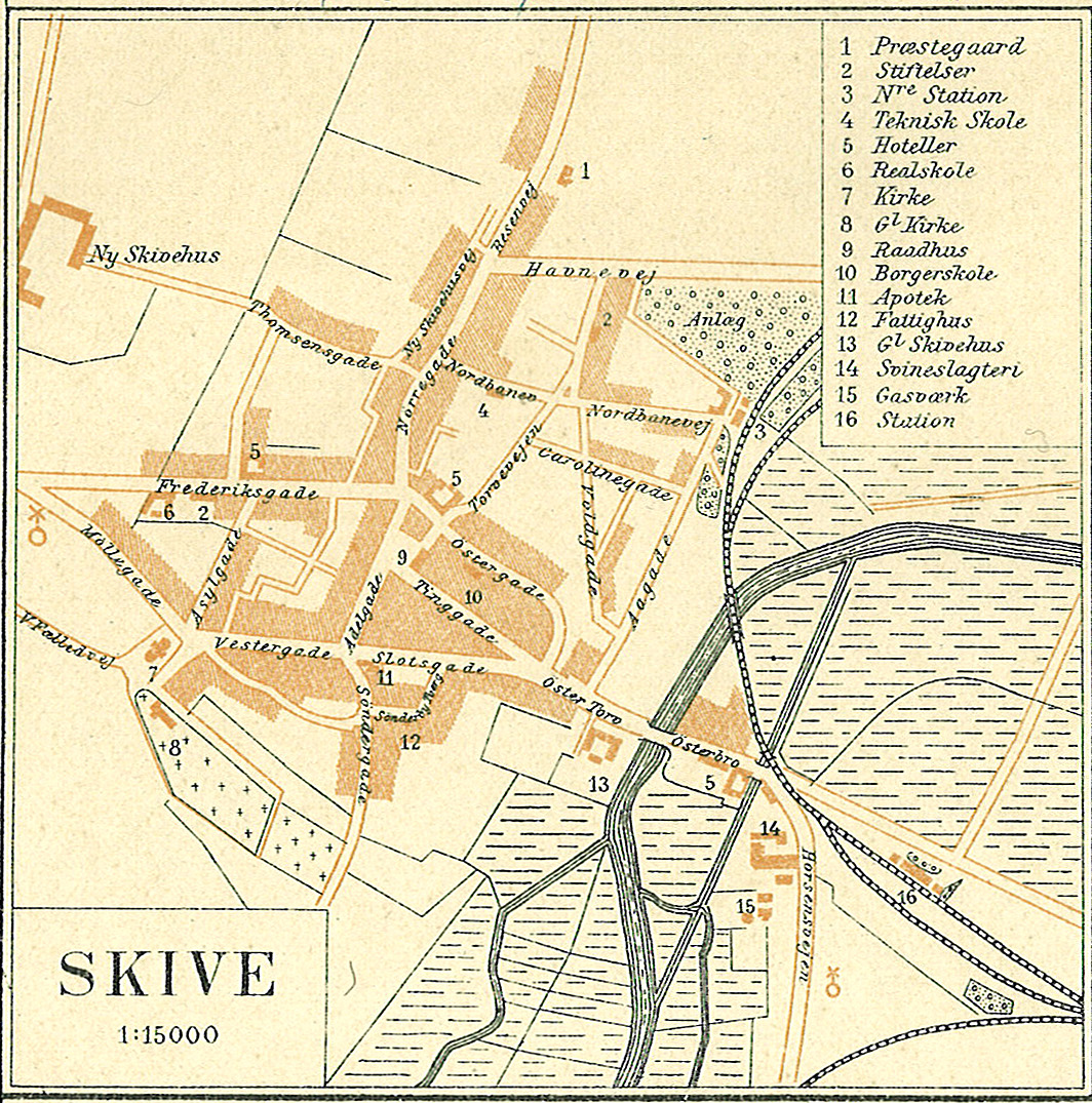 Map of Skive in Viborg County in Denmark